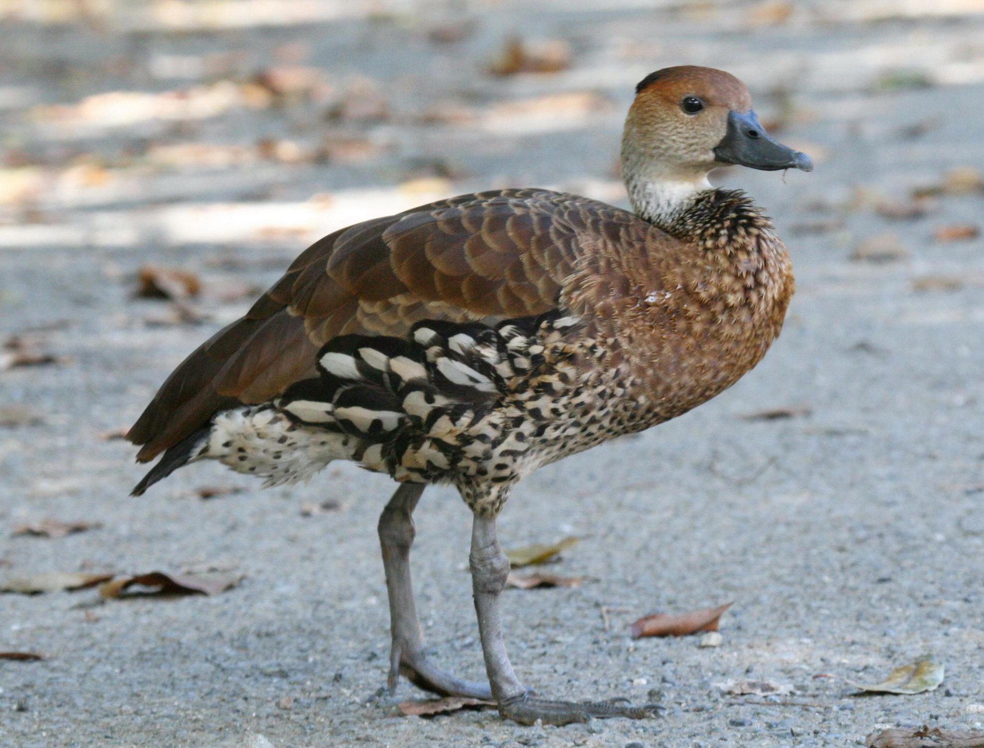 West Indian Whistling-Duck (Dendrocygna arborea)in Puerto Rico at the Mayaquez Zoo